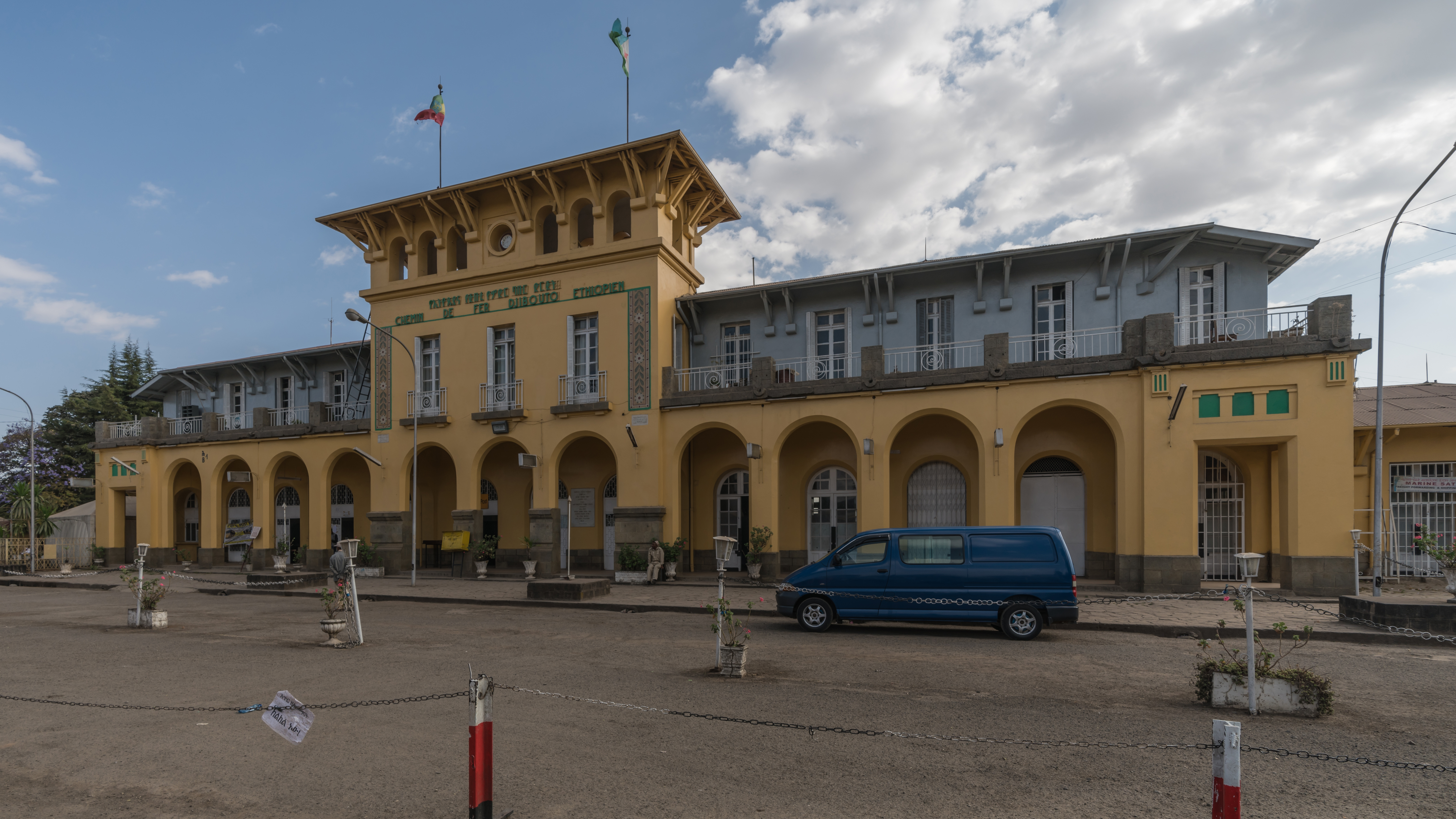 Former railway station (Djibouti railway terminal / La Gare) in Addis Ababa, Ethiopia